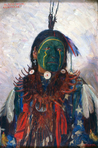 Painting of an Arapaho warrior named "Black Man". Painted by E.A Burbank in 1899.